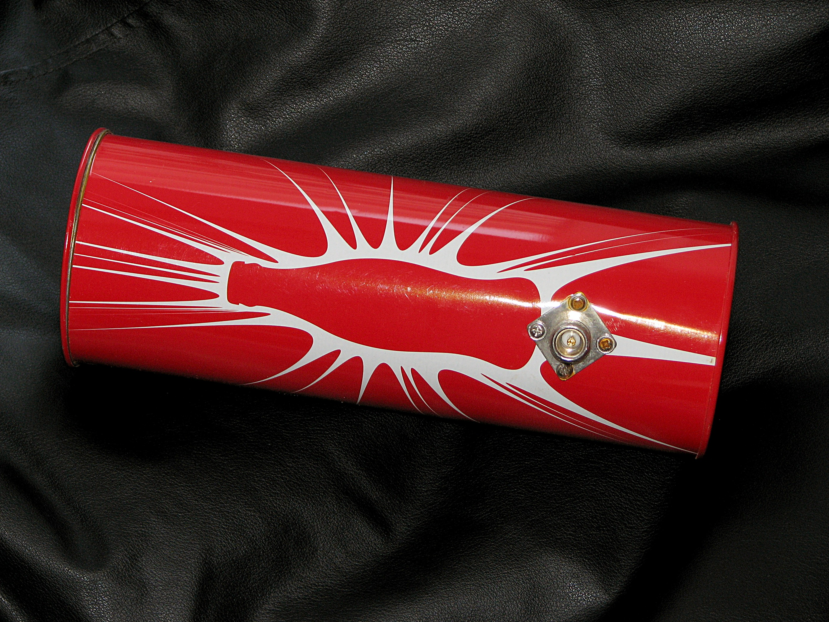 A cantenna designed for use in 802.11 networks (2.4Ghz).